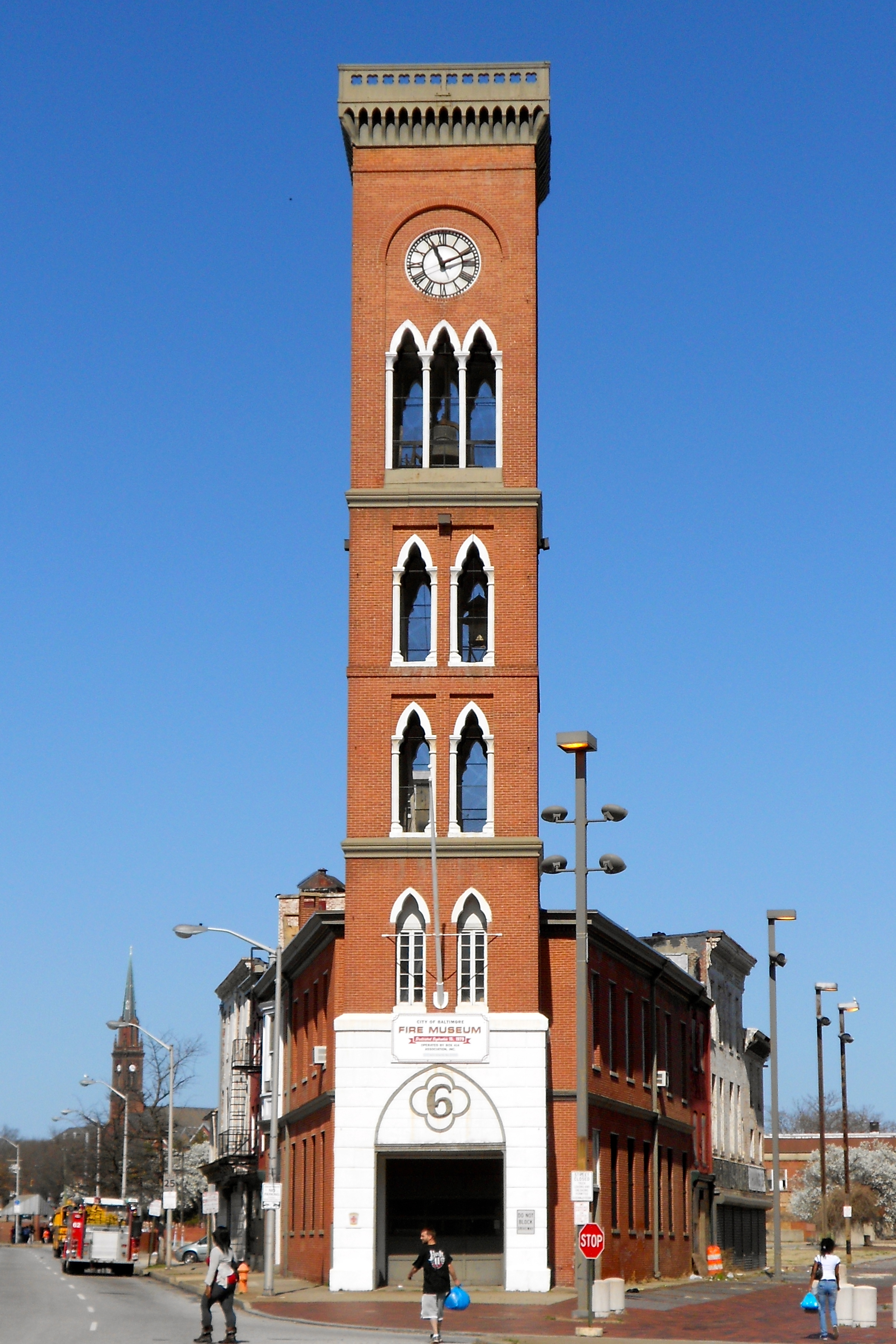 Engine House No. 6 on the NRHP since June 18, 1973. At 416 N. Gay St. in east Baltimore, Maryland. 2 story firehouse with huge tower.